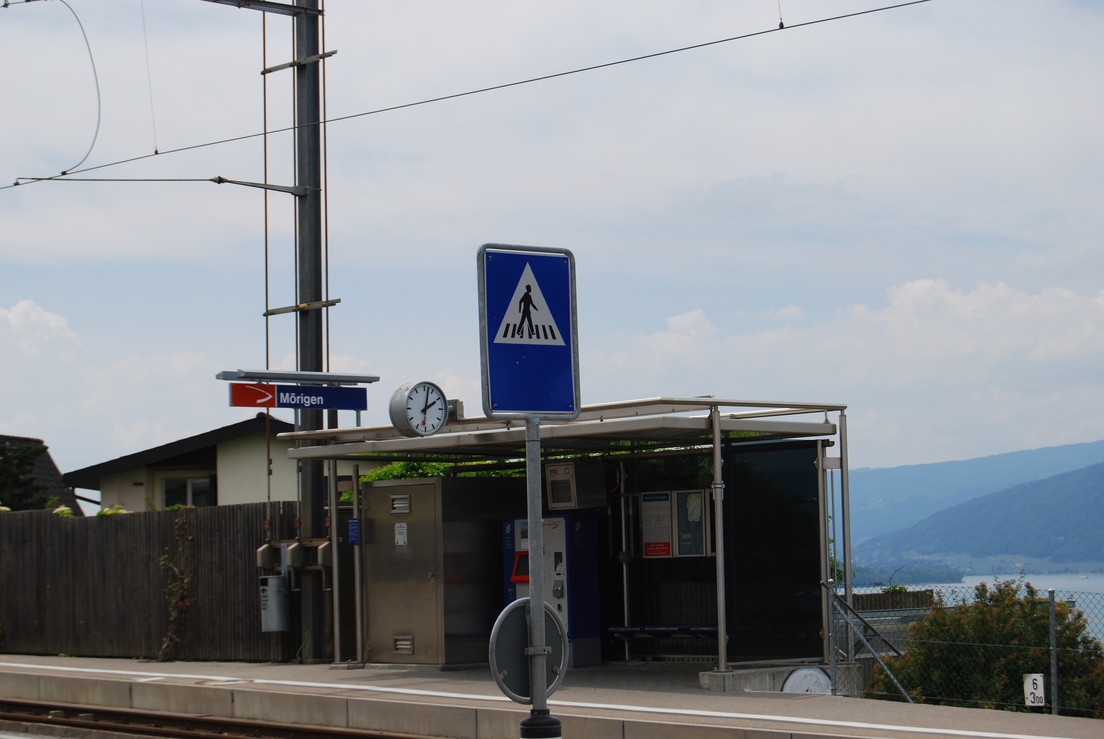 Train station of Mörigen, canton of Bern, Switzerland